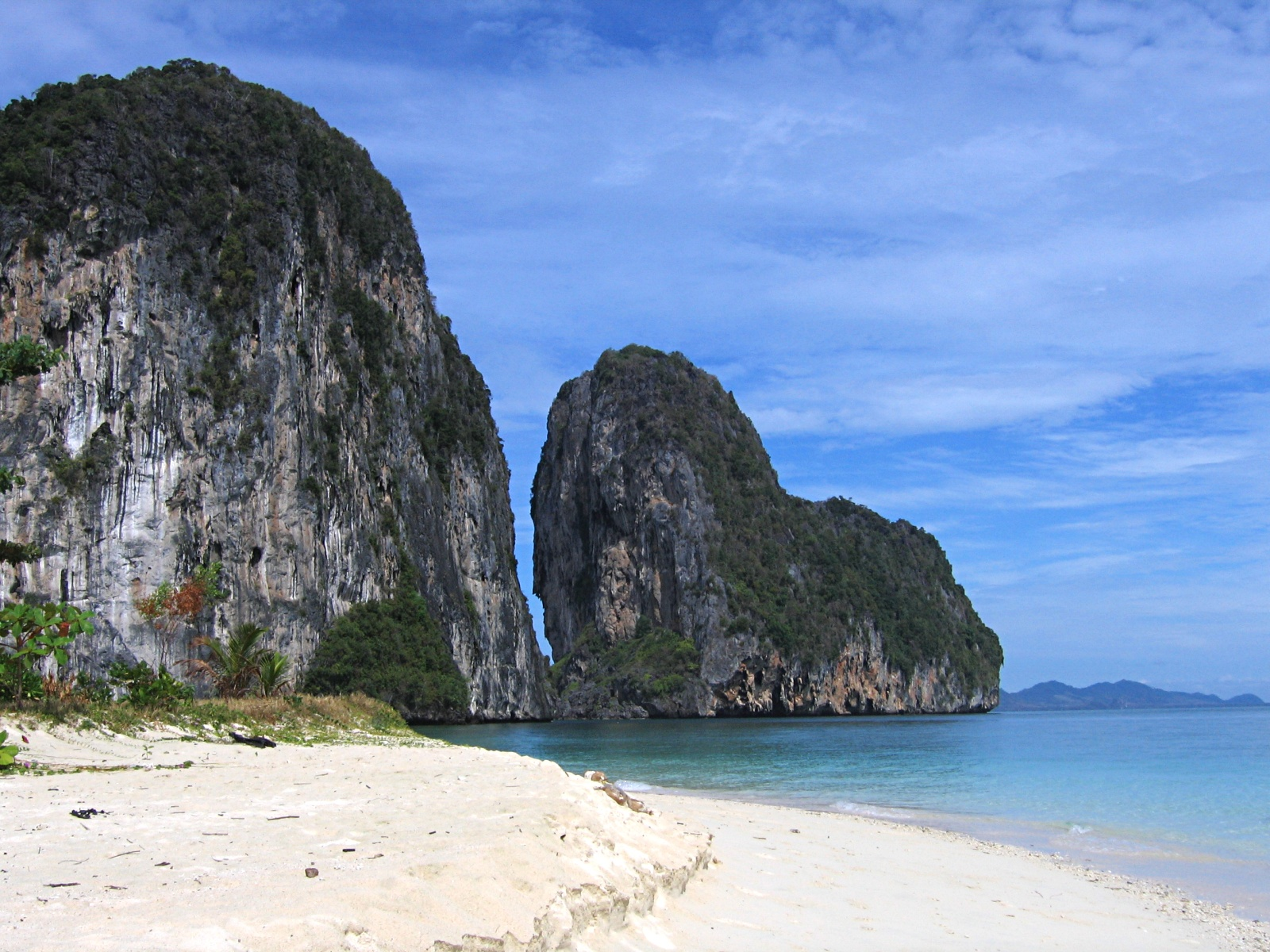 Ko Lao Liang Phi (เหลาเหลียงพี่, หลาวเหลียงพี่) or Ko Lao Liang Tai (เหลาเหลียงใต้, หลาวเหลียงใต้), Amphoe Palian, Trang Province, Thailand. The island, part of Mu Ko Phetra Marine National Park, is a breeding ground of Swiftlets. It has been under concession for a very long time where island "owner" paid large sum of fee to government in exchange for the right to collect bird nests in the caves high up the hills. It was guarded with firearms and visiting the island was impossible until only recently (around 2003) where it is opened for tourism (for diving) during months with calm sea.